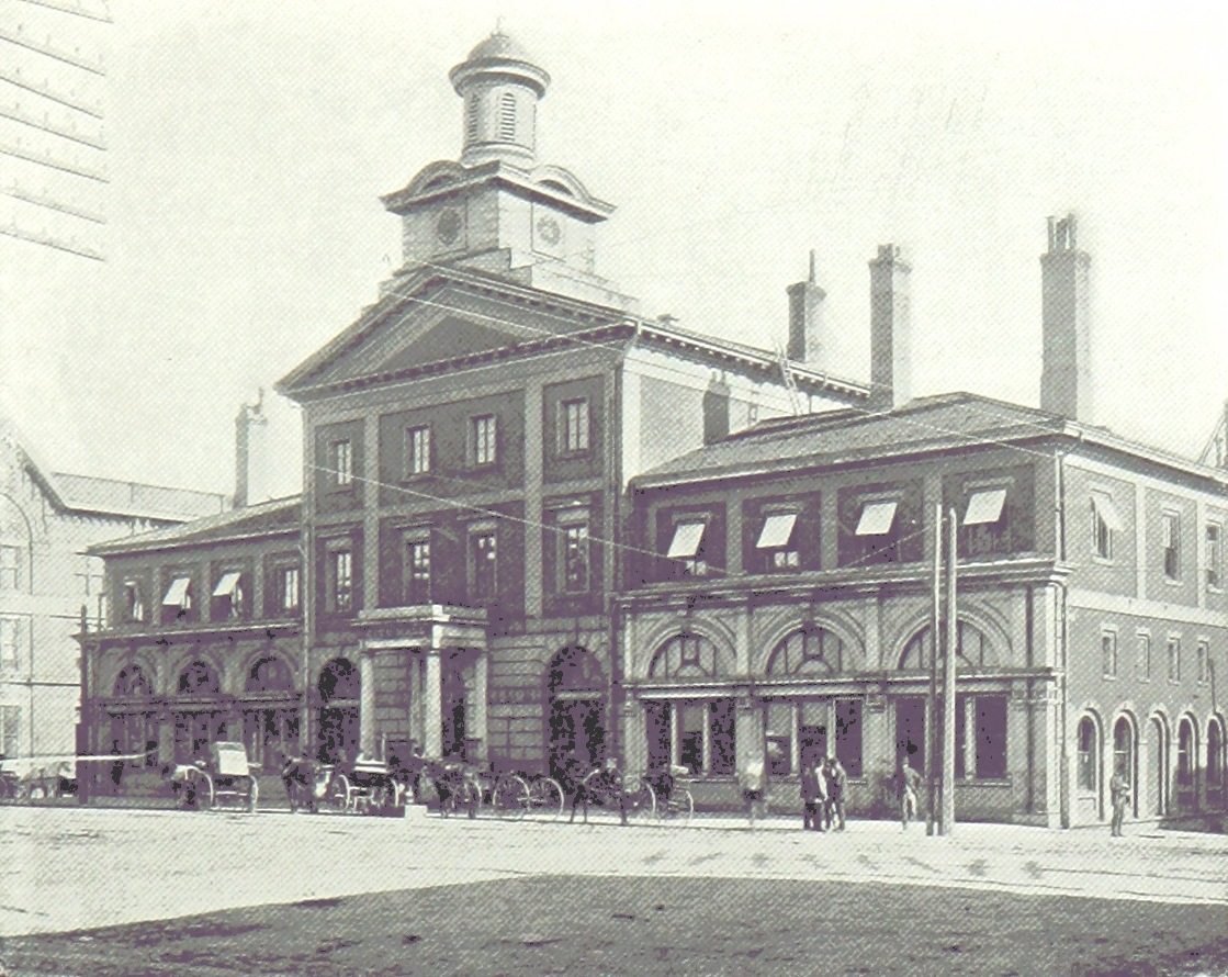 "The Old City Hall", now known as St. Lawrence Market, on King Street East, Toronto, Ontario, Canada. The building served as the municipal seat of government for 55 years, at which point it was replaced by what is now called Old City Hall on Queen Street West.